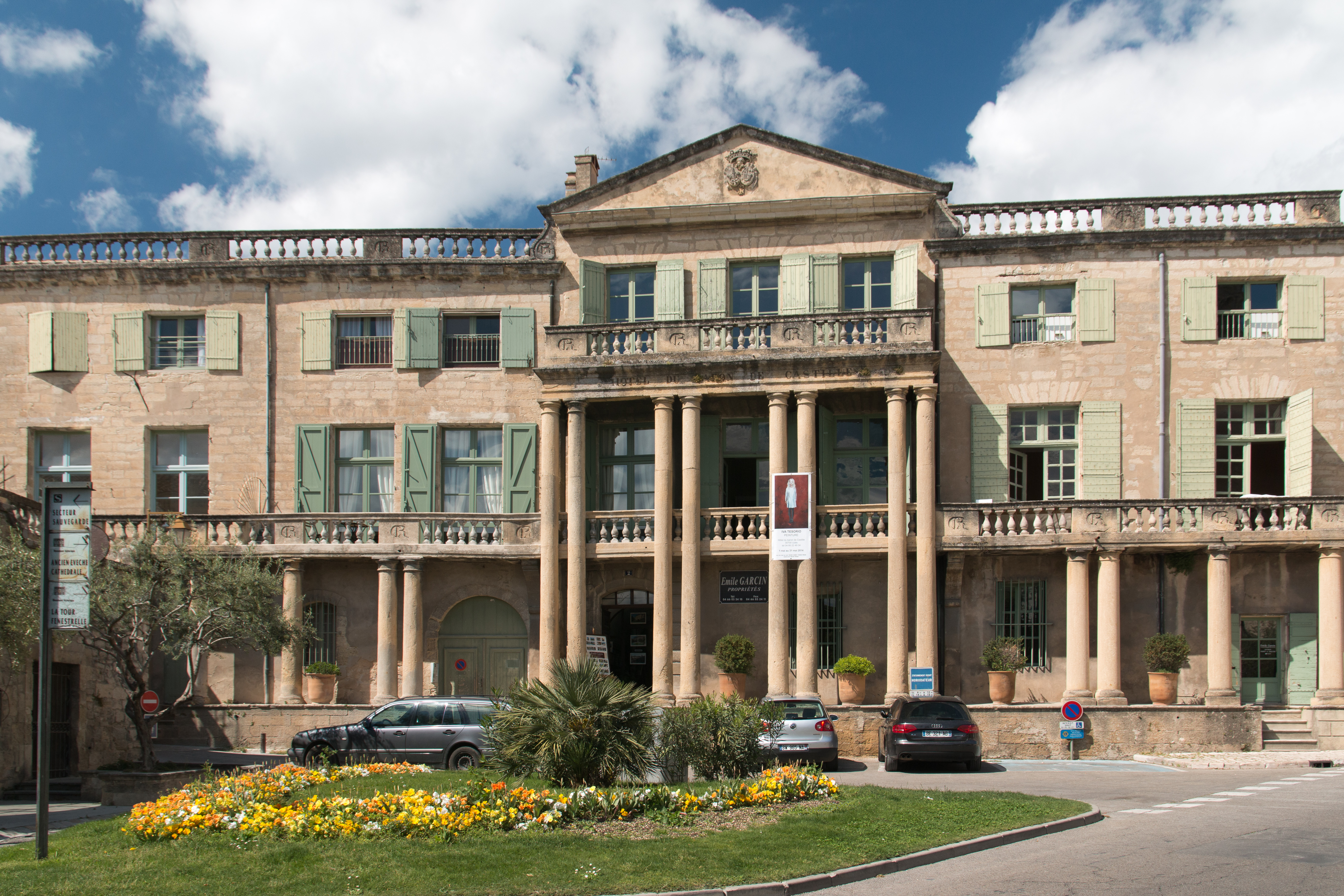 Manshion of the Baron de Castille.